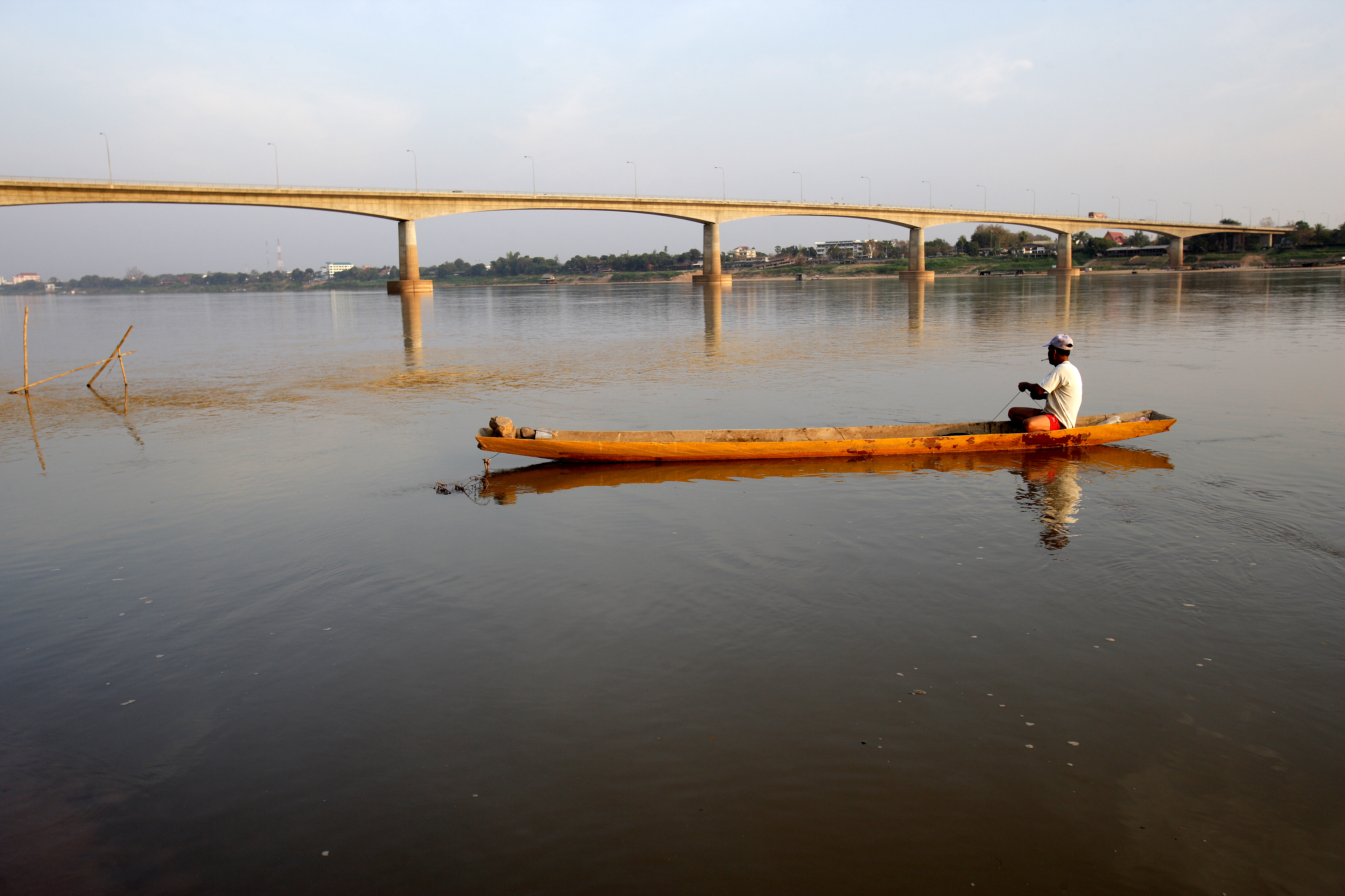 The Friendship bridge built with Australian funding and completed and opened in 1994, crossing the Mekong River and connecting Thailand to Laos, There are now railway lines crossing the bridge, but the process of running trains has still not started. Close to Vientiane, Lao PDR 2009.